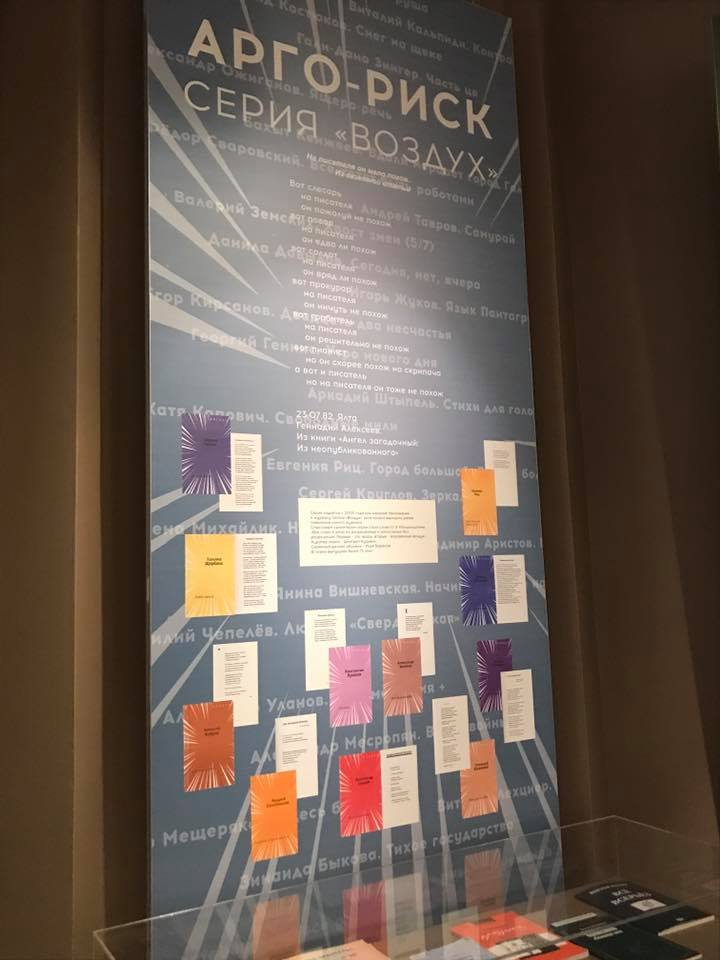 ARGO-RISK. From the exhibition "Literaturnaya Atlantida: poetichekaya zhizn' 1990-2000's" (Ostroukhov's House Museum, Moscow. 30 May - 11 September 2017)